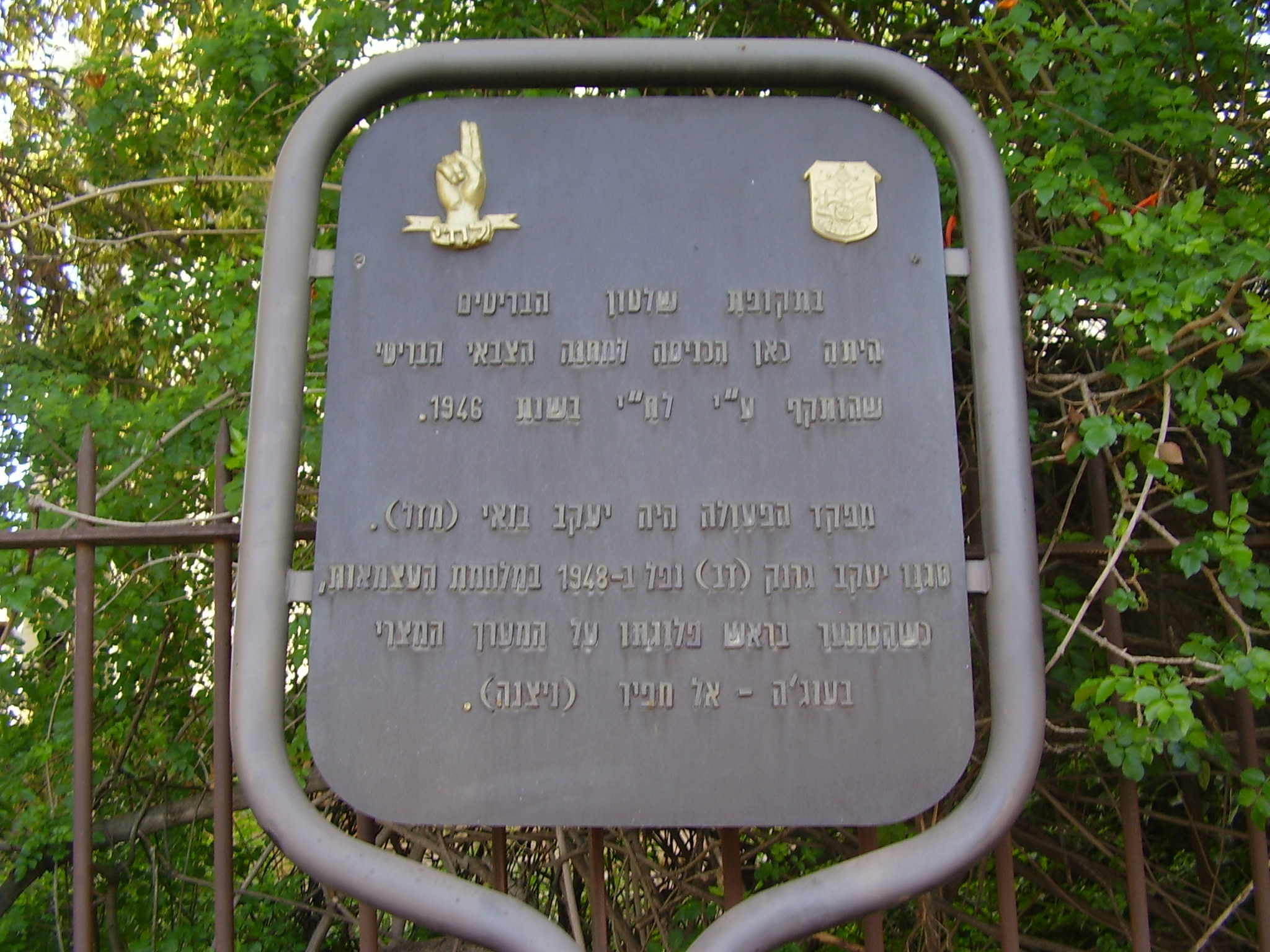 lehi memorial in tel hashomer, israel